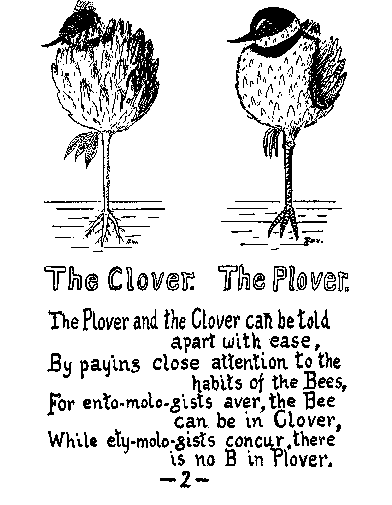 Illustration and verse from "How to tell the birds from the flowers" by Robert W. Wood.